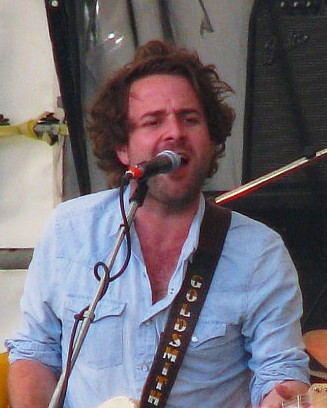 Taylor Goldsmith of Dawes performing at the Appel Farm Arts and Music festival in Elmer, NJ, June 2012. Photo by L H Collins.